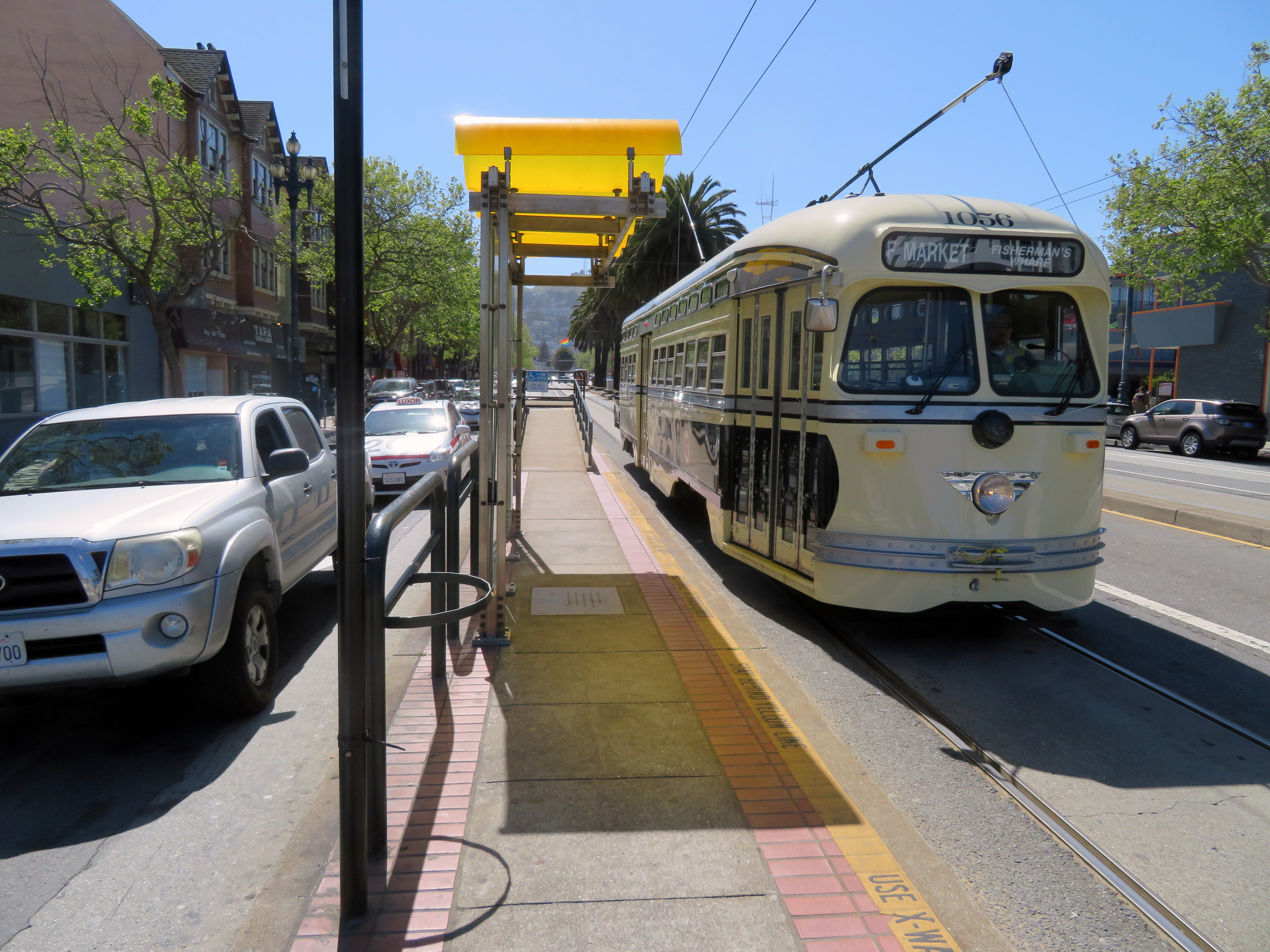 Muni 1056 inbound at Market and Sanchez station in April 2018